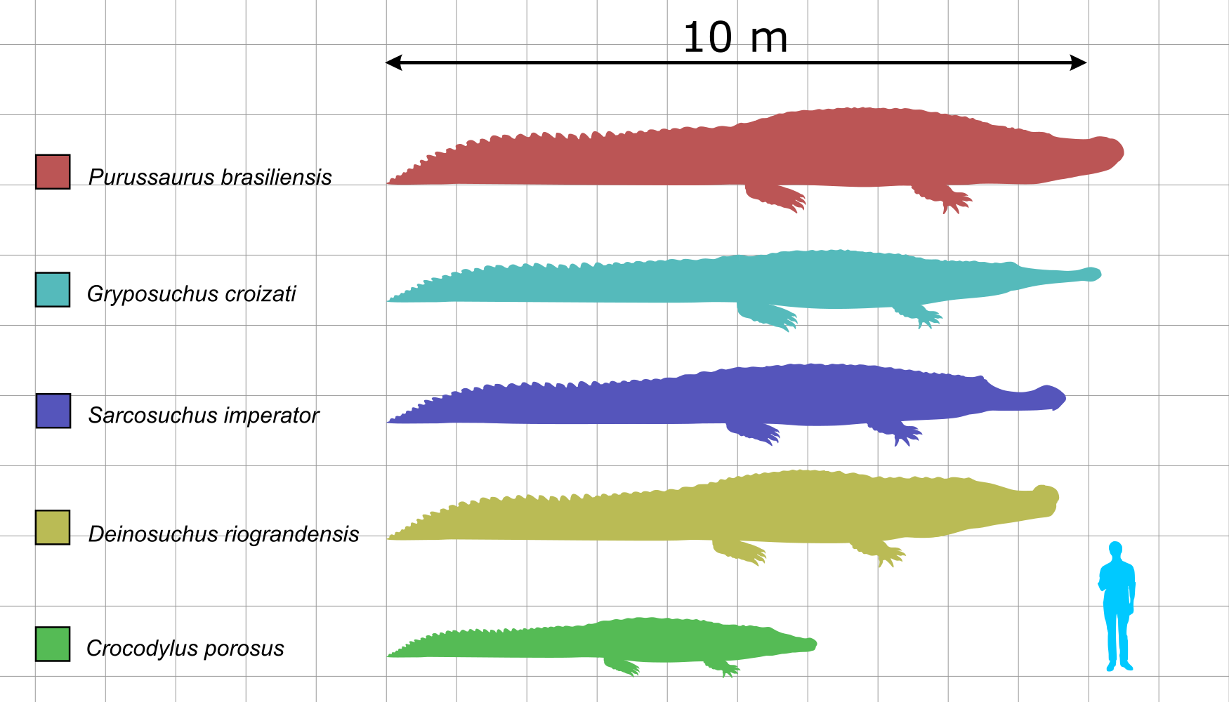 Scale diagram of crocodyliforms 9 metres (29.5 ft) or more in length, based on recent size estimates. Deinosuchus riograndensis: body length of 10.6 m according to Farlow et al. (2005),[1] skull shape according to Schwimmer (2002)[2] Purussaurus brasiliensis: body length of 10.3 m according to Moreno-Bernal (2007),[3] skull shape according to Aguilera et al. (2006)[4] Gryposuchus croizati: body length of 10.15 m and skull shape according to Riff & Aguilera (2008)[5] Euthecodon brumpti: body length of 10 m and skull shape according to Storrs (2003)[6] Sarcosuchus imperator: body length of 9–9.5 m according to O'Brien et al. (2019),[7] skull shape according to Sereno et al. (2001)[8] Crocodylus porosus: body length of 6.3 meters according to Britton et al. (2012)[9]